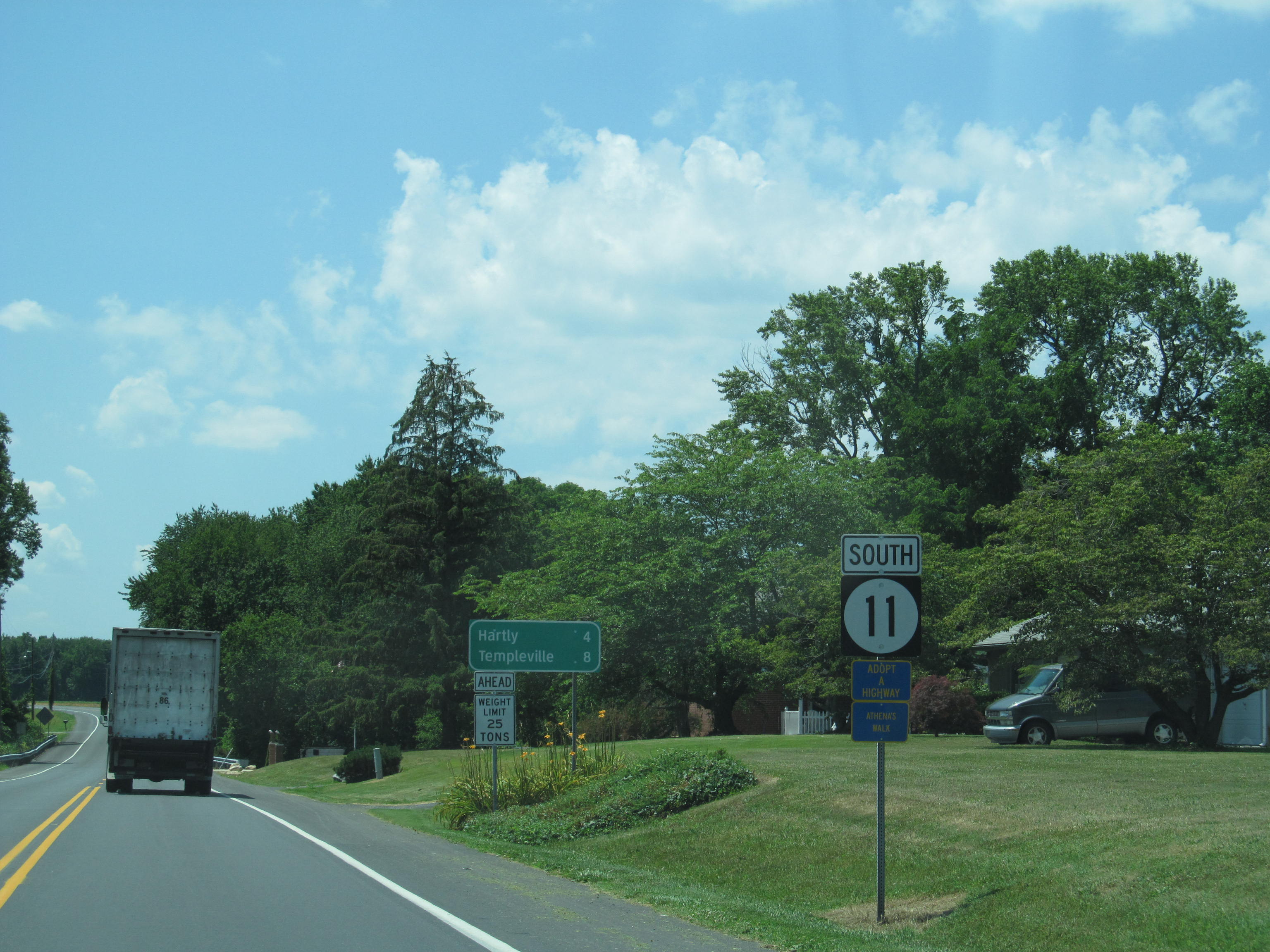 Southbound Delaware Route 11 (Arthursville Road) past the intersection with Delaware Route 300 southwest of Kenton.